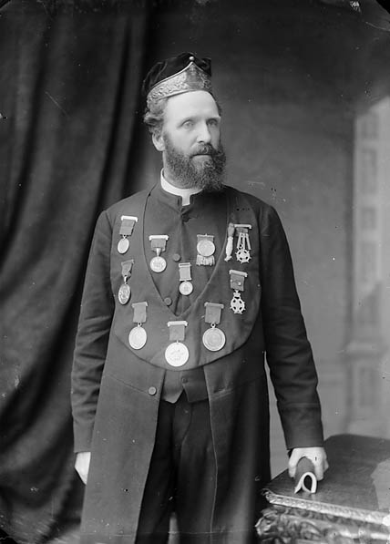 1 negative : glass, dry plate, b&w ; 16.5 x 12 cm.